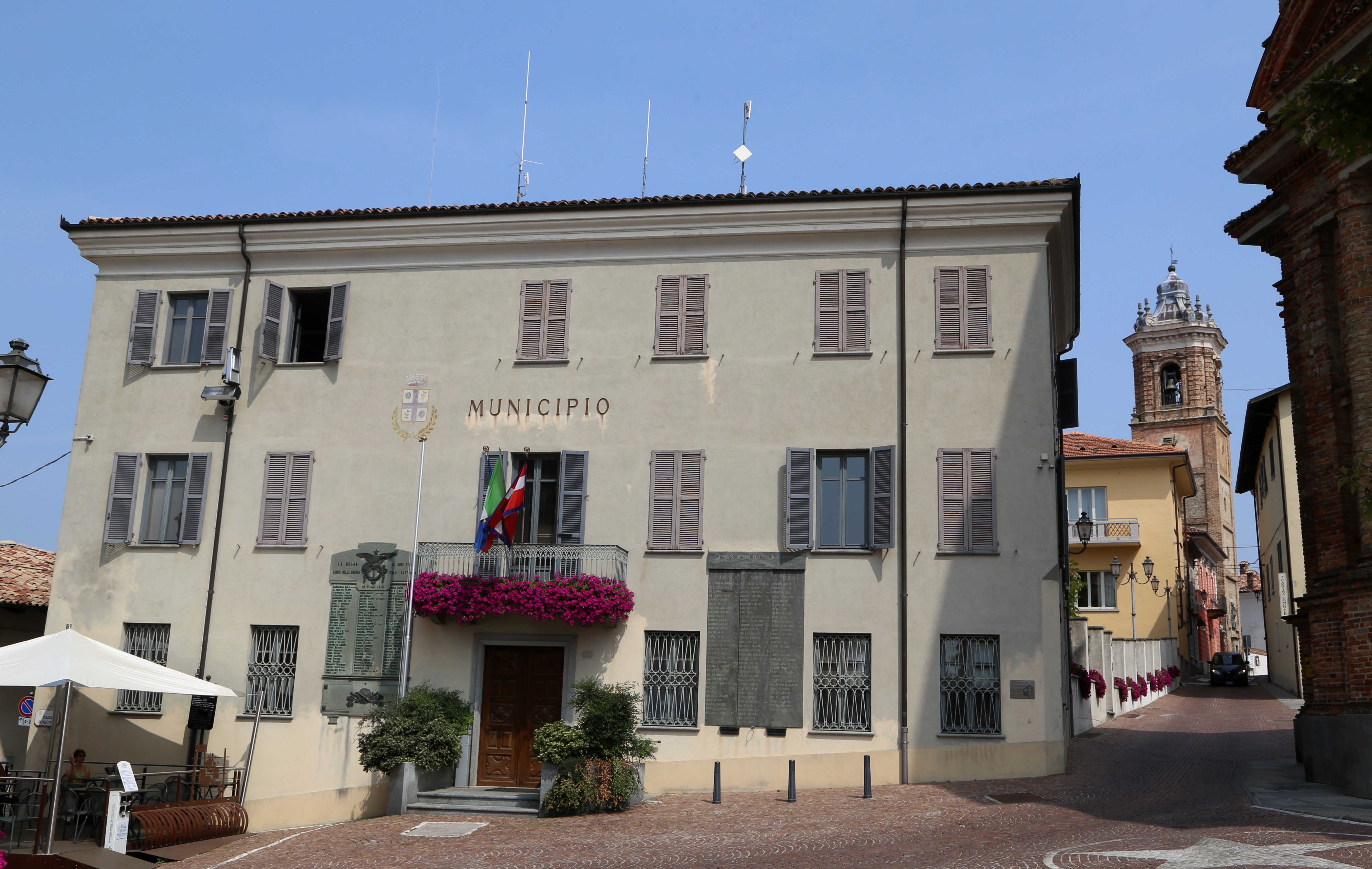 Municipio, La Morra, Piedmont